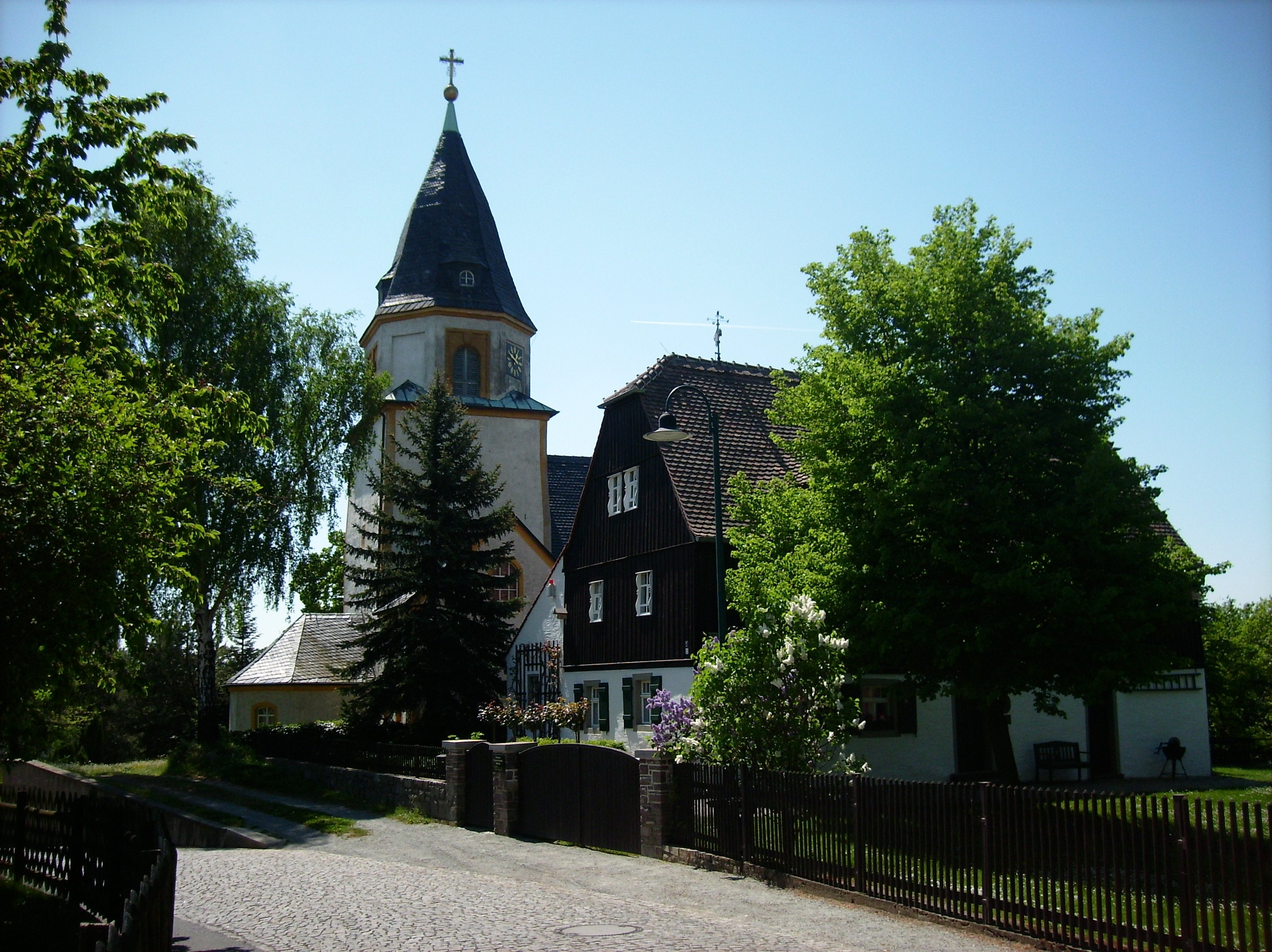 The church and the museum Stone Workers' House in Hohburg (Leipzig district, Saxony)